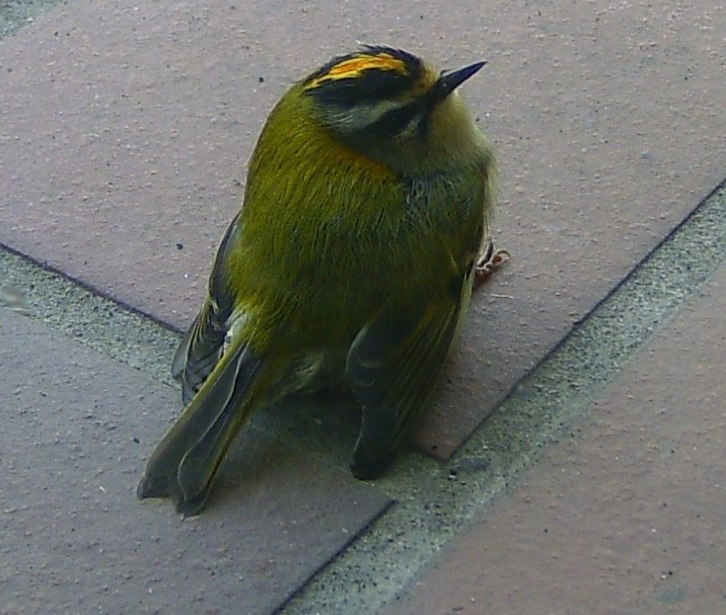 Regulus ignicapillus